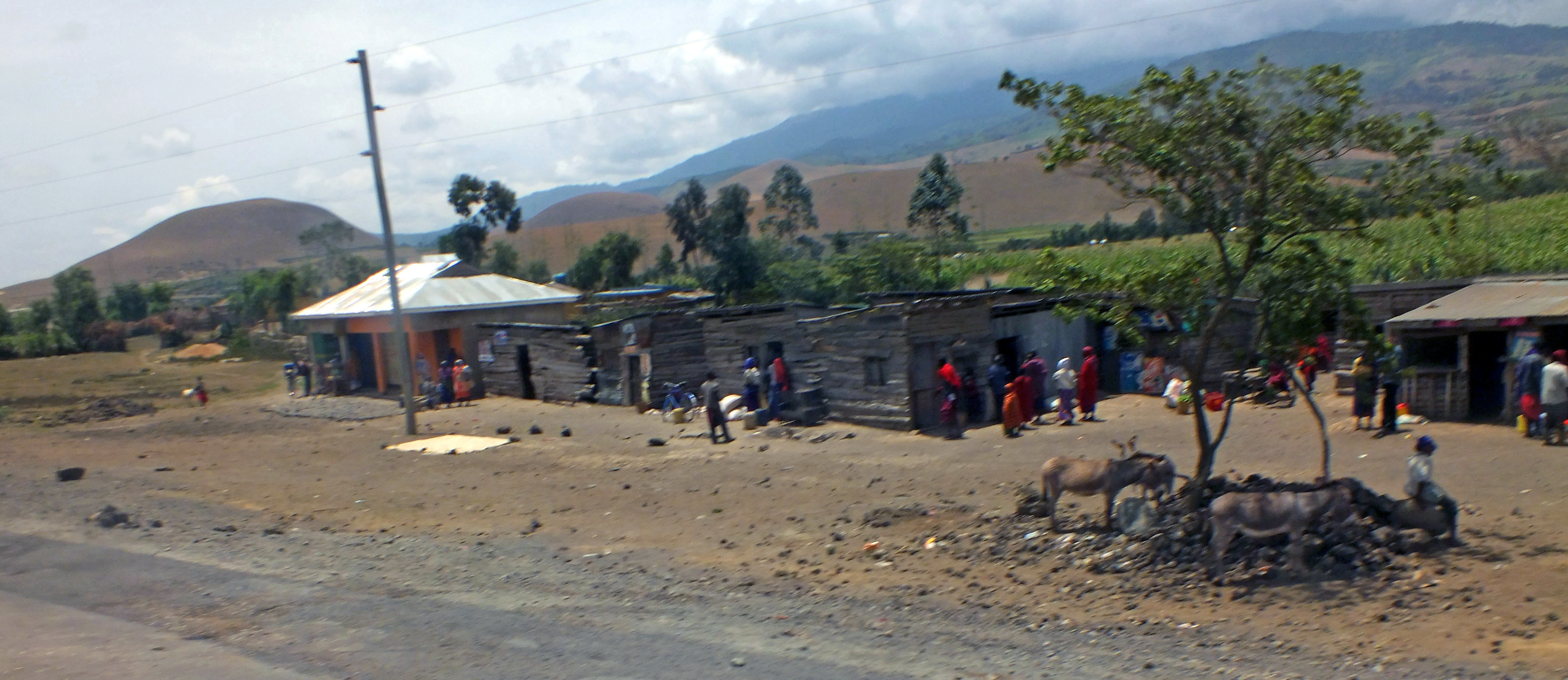 Typical lifescape thirty minutes north of Arusha, Arusha Region. Kiswahili: Kijiji katika Mkoa wa Arusha.